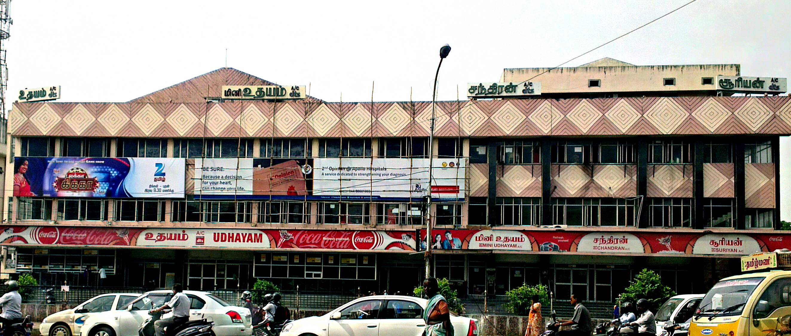 udhayam theatre in chennai kk nagar